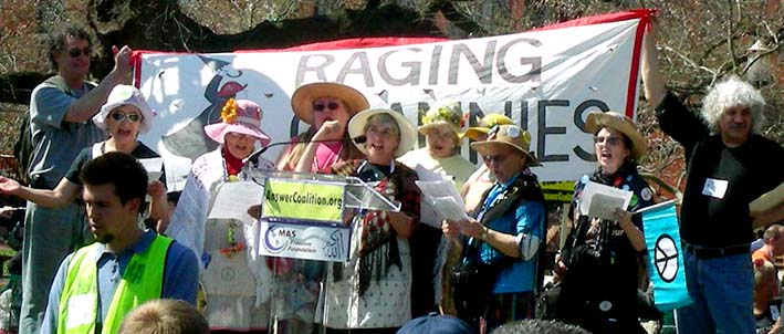 Raging Grannies sing at the March 20, 2010 anti-war protest in Washington, DC